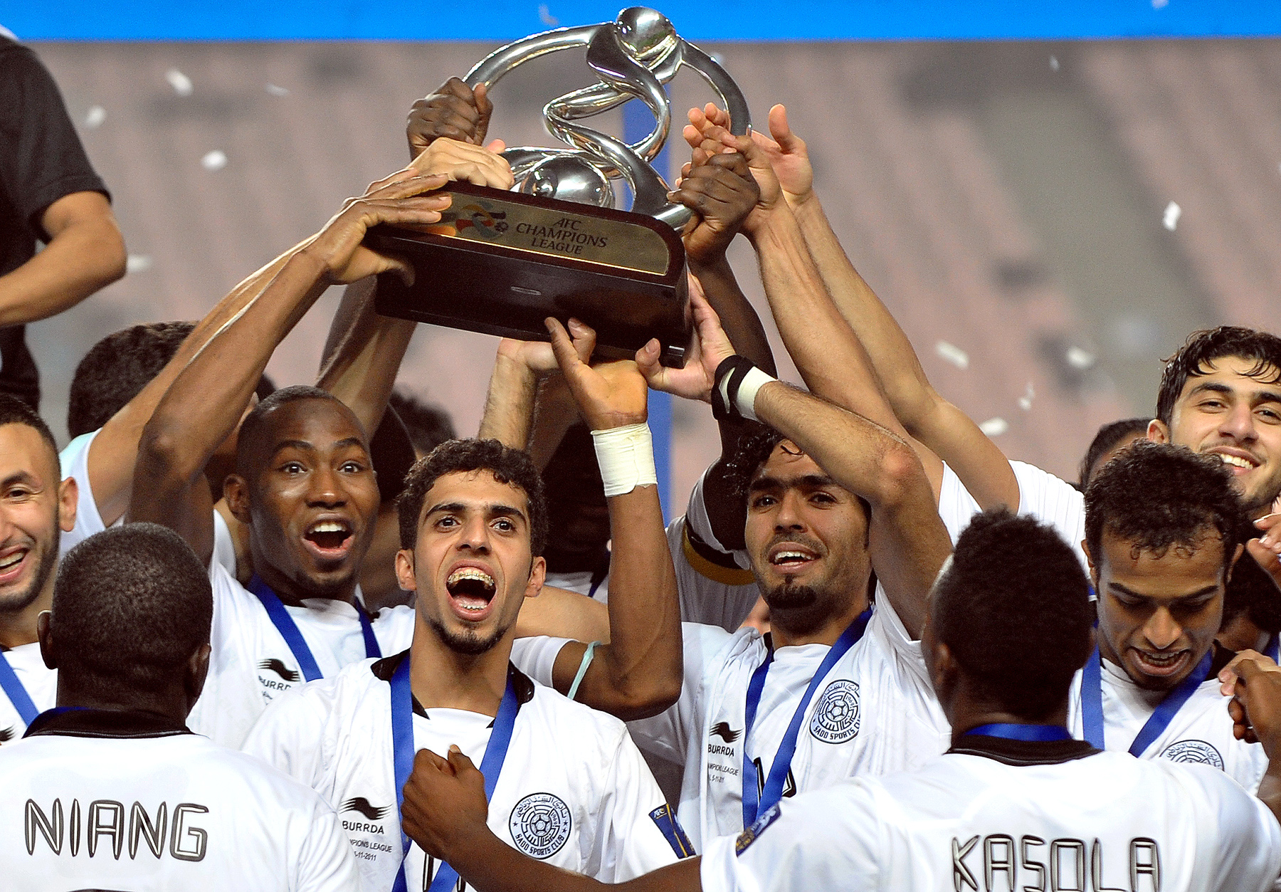 Members of the Al Sadd team celebrates after winning the AFC CHampions League trophy. Pic by Doha Stadium Plus